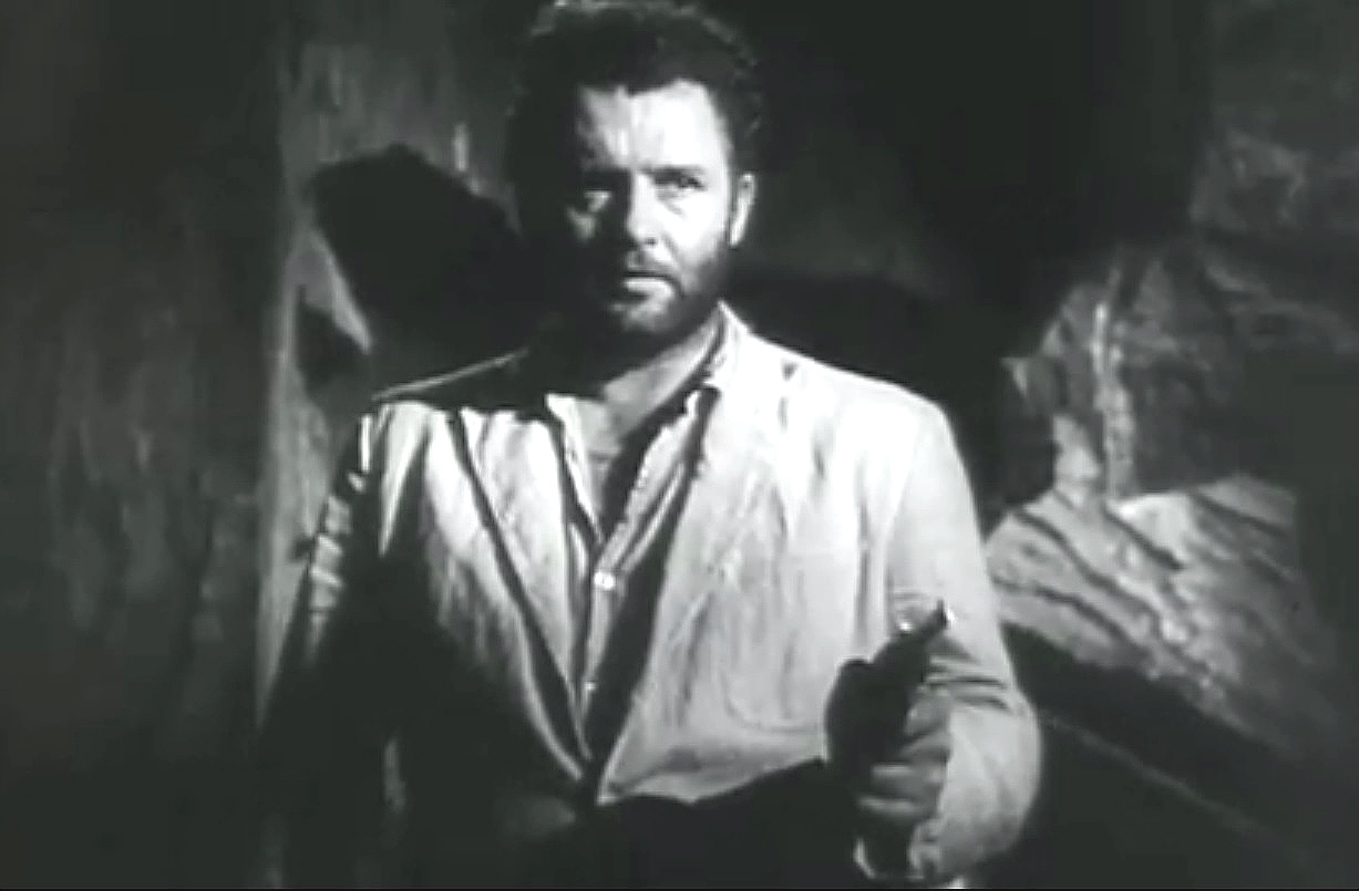 Rod Steiger in Back From Eternity from the trailer for the film.